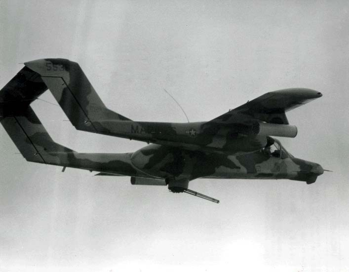 The second North American Rockwell YOV-10D Bronco (BuNo 155396) in flight. The U.S. Marine Corps OV-10 Night Observation Gunship (NOGS) program modified four OV-10As to include a turreted forward-looking infrared (FLIR) sensor and turreted 20 mm M197 gun slaved to the FLIR aimpoint. NOGS succeeded in Vietnam, but funds to convert more aircraft were not approved. NOGS evolved into the NOS OV-10D, which included a laser designator, but no gun.